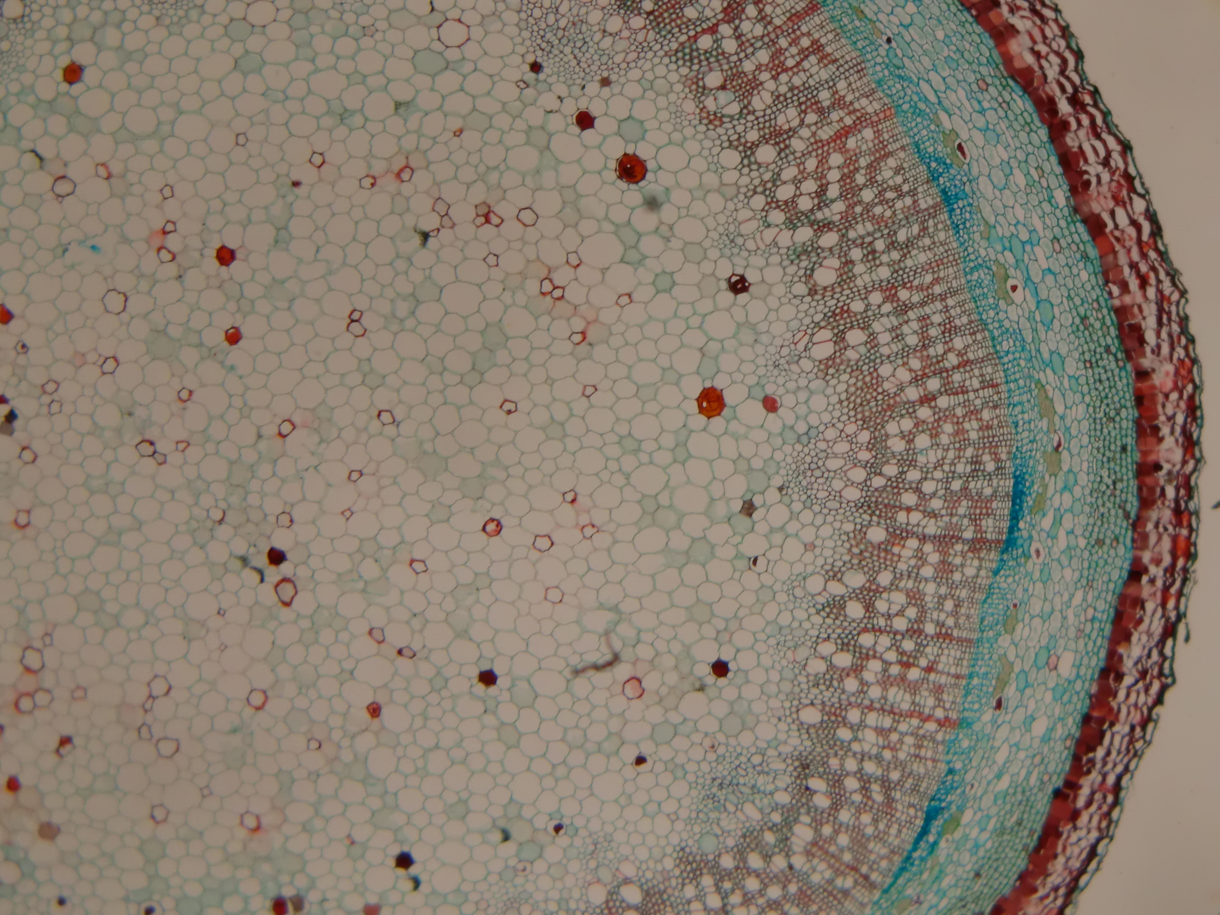 Cross section of young trunk of Sambucus nigra